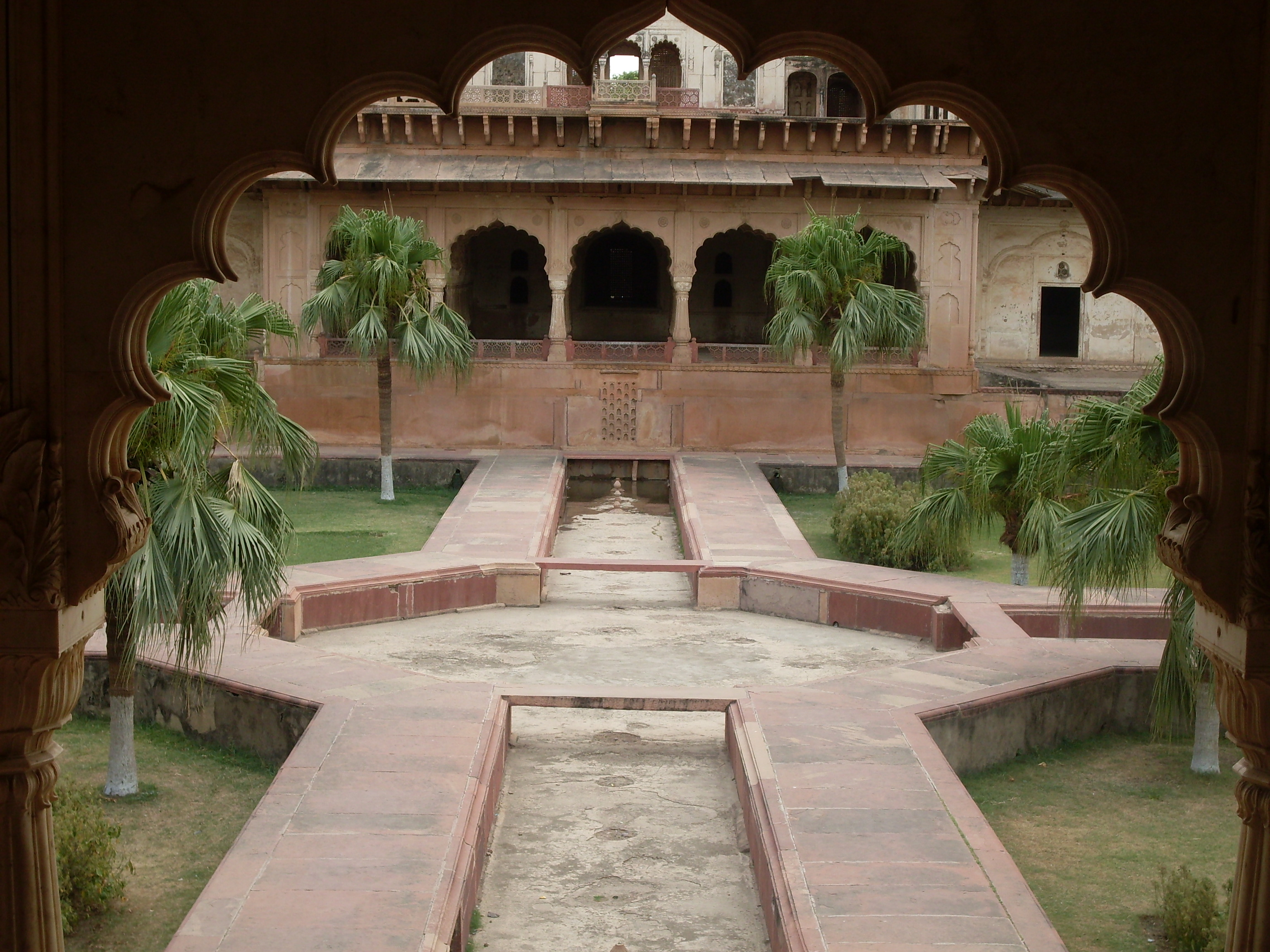 Old Palace at Deeg in Rajasthan, India